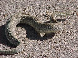 The Mojave rattlesnake, Crotalus scutulatus, is the most dangerous snake in the United States. California specimens possess highly neurotoxic venom. Photo by Kathie Meyer. Source: USGS Information presented on this website is considered public information (unless otherwise noted) and may be distributed or copied. Use of appropriate byline/photo/image credit is requested.